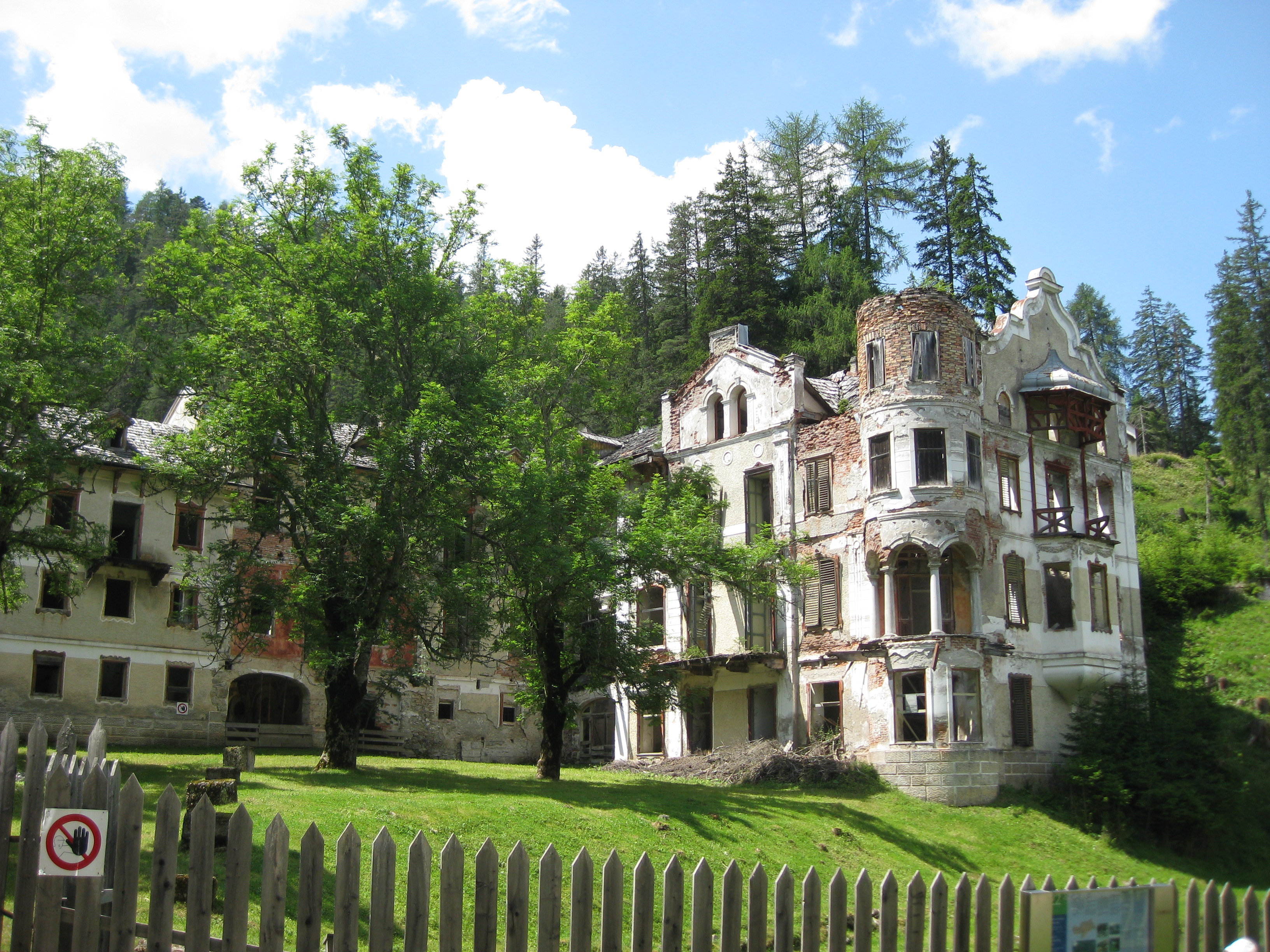 The ruin of Wildbad Innichen, Italy